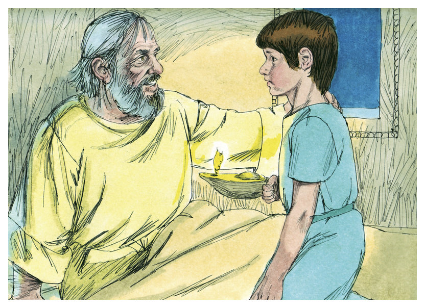 Biblical illustration of First Book of Samuel Chapter 3